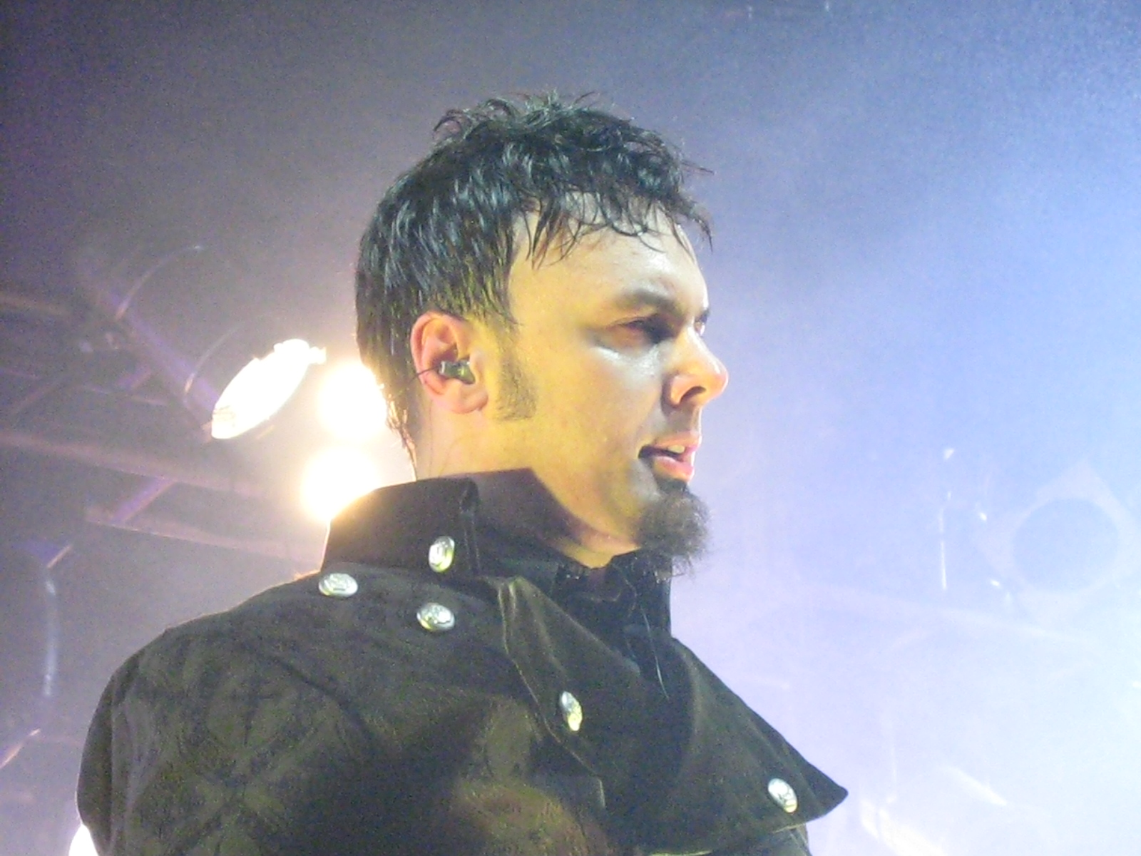 Roy Khan of Kamelot at the Astoria2, London. 2007-09-28.